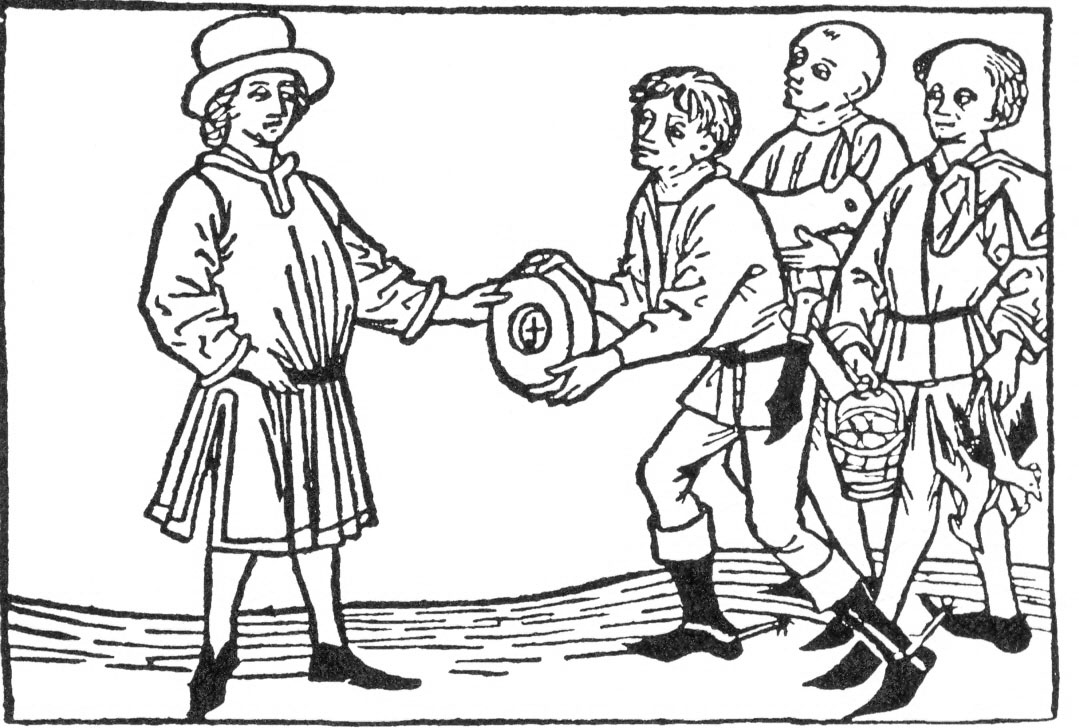 Farmers in the delivery of their taxes to the landlords. Woodcut